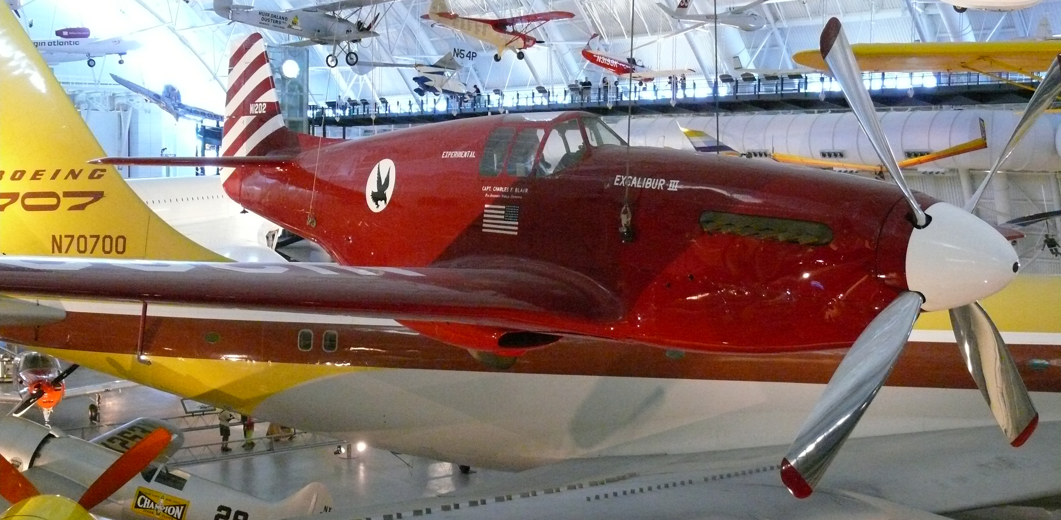 North American P51 Mustang Excalibur III in the National Air and Space Museum, Steven F. Udvar-Hazy Center, Washington DC. Charles F. Blair jr. purchased the P-51 Mustang "Blaze of Noon" that Paul Mantz flown to wins in the Bendix Trophy air races in 1946 and 1947. Rechristened "Excalibur III", Blair began setting records. On 31 January 1951 Blair flew non stop from New York to London to test the jet stream, travelling 3,478 miles (5,597 km) at an average speed of 446 miles per hour (718 km/h) in seven hours and 48 minutes setting a record for a piston engine plane. On 29 May of the same year he flew from Bardufoss, Norway to Fairbanks, Alaska flying 3260 non stop miles across the North Pole.